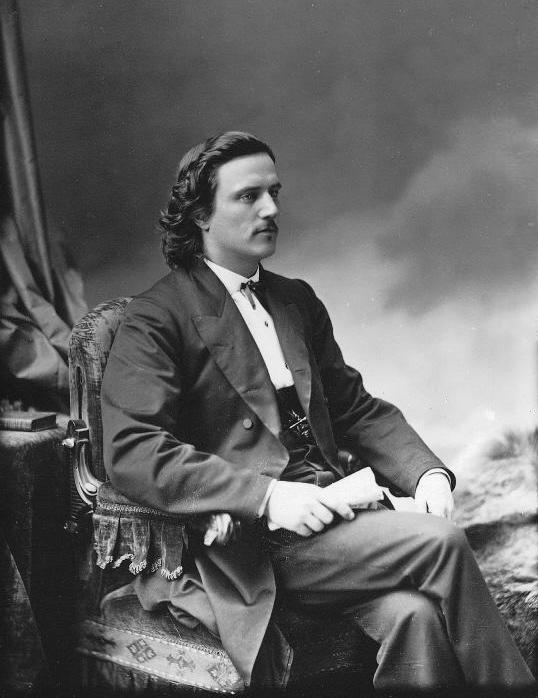 Photograph, Sir Joseph Adolphe Chapleau, Montreal, QC, 1869, William Notman (1826-1891), Silver salts on glass - Wet collodion process - 17 x 12 cm